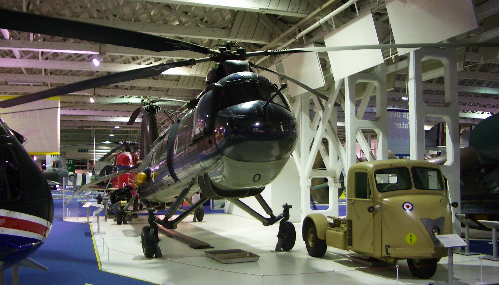 Bristol Belvedere helicopter at the Royal Air Force museum, Hendon, UK. Seen alongside a Scammel Scarab three-wheeled, six-ton tractor (successor to the "mechanical horse").